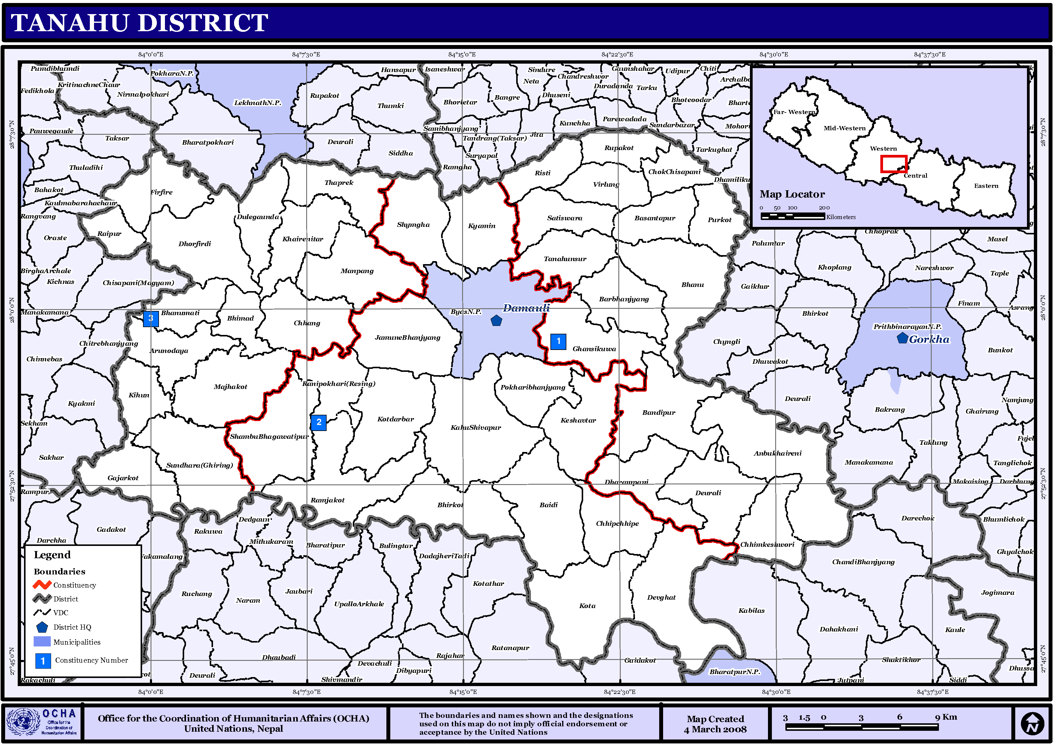 Map displaying Village Development Committees in Tanahu District, Nepal